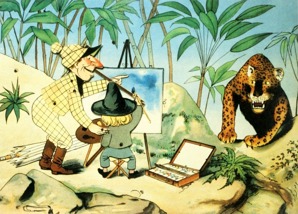 Lothar Meggendorfer, illustration from Travels of Little Lord Thumb and His Man Damien, 1891.